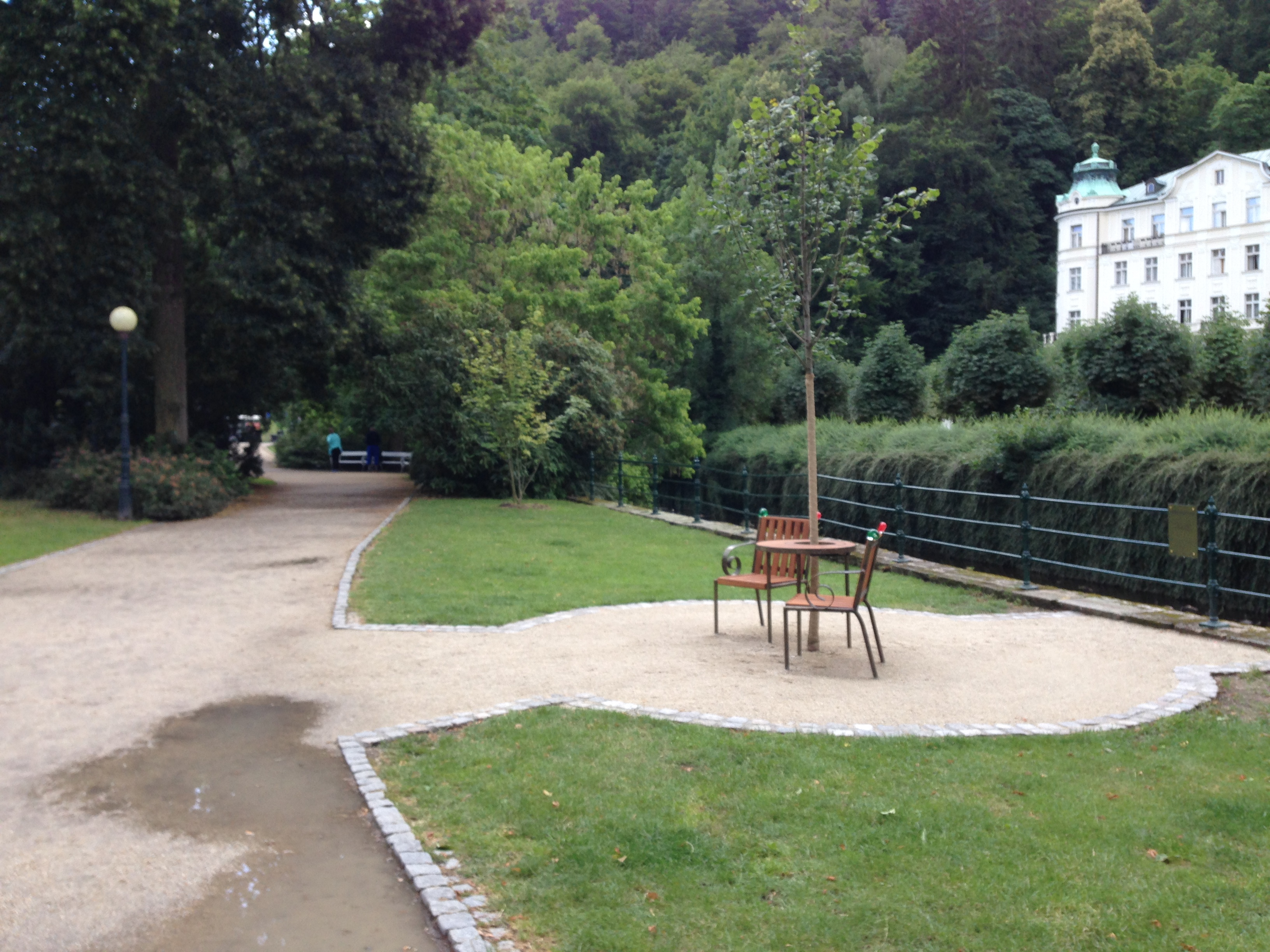 Havel's Place in Karlovy Vary, Czech Republic